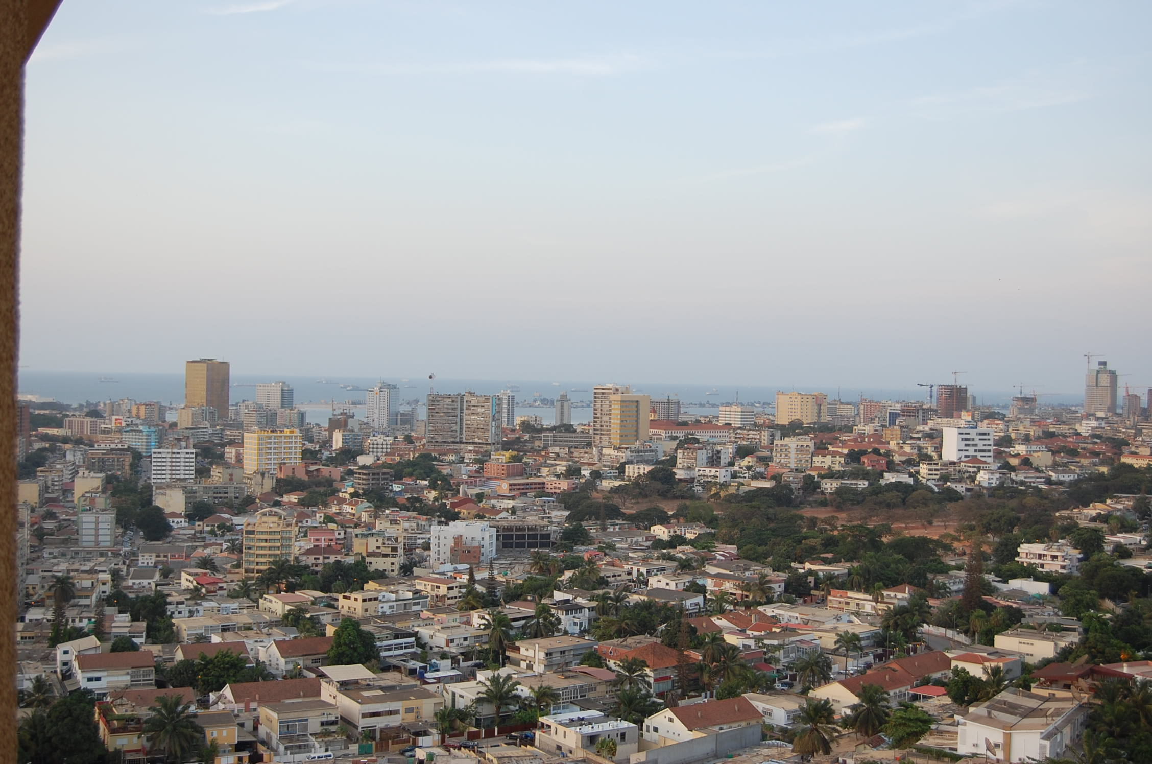 Luanda, Angola